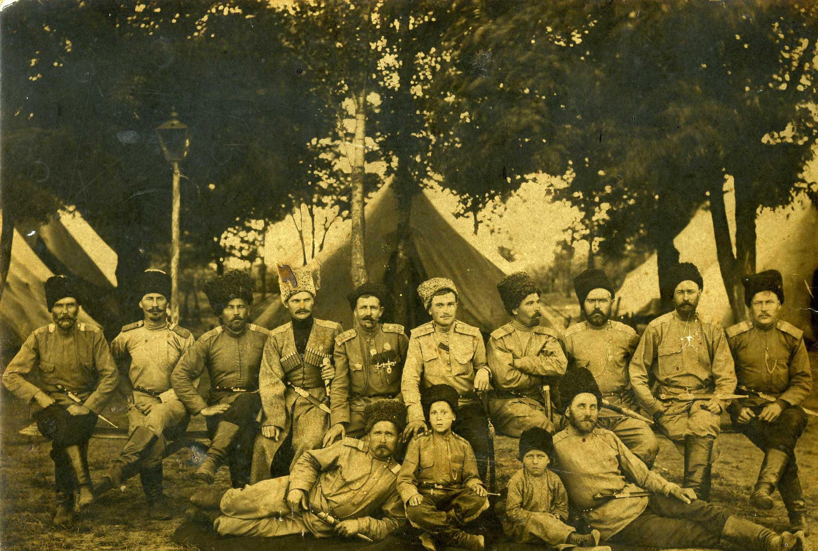 Cossacks. May 5, 1916. Goryachy Klyuch. Russian Empire.